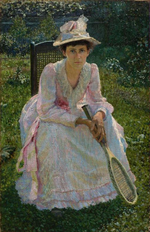 Portrait of the artist's wife, Mary Holland